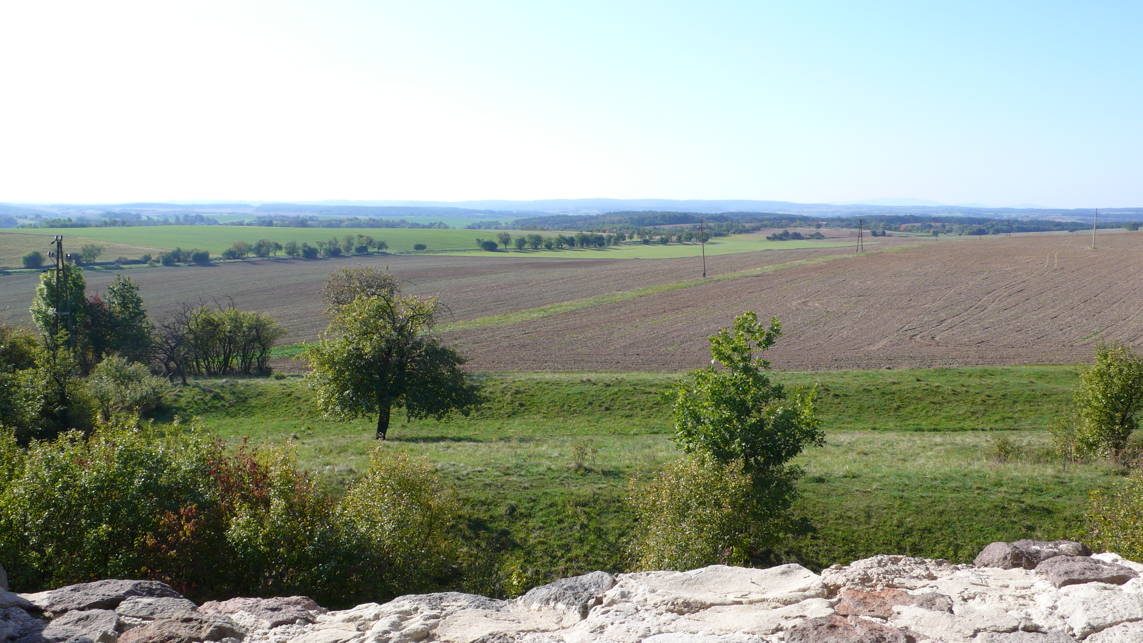 View of Bzovík monastery to Krupinská planina